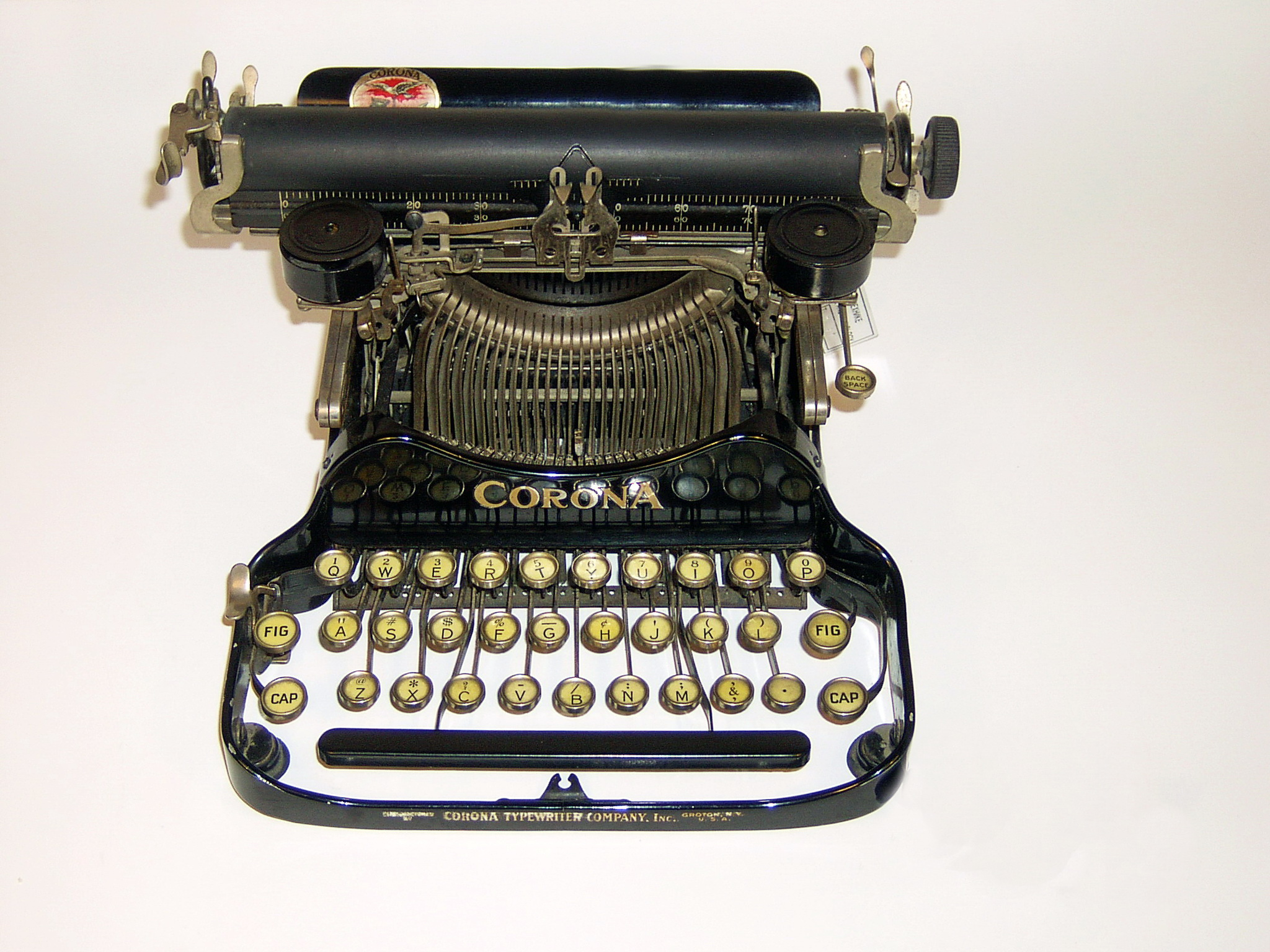 Corona portable typewriter with Cyrillic letters. This model can be found in the Museum of Science and Technology Belgrade.